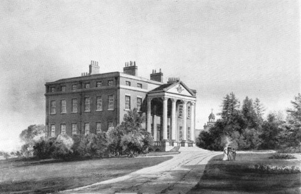 Old photo of Wormleybury